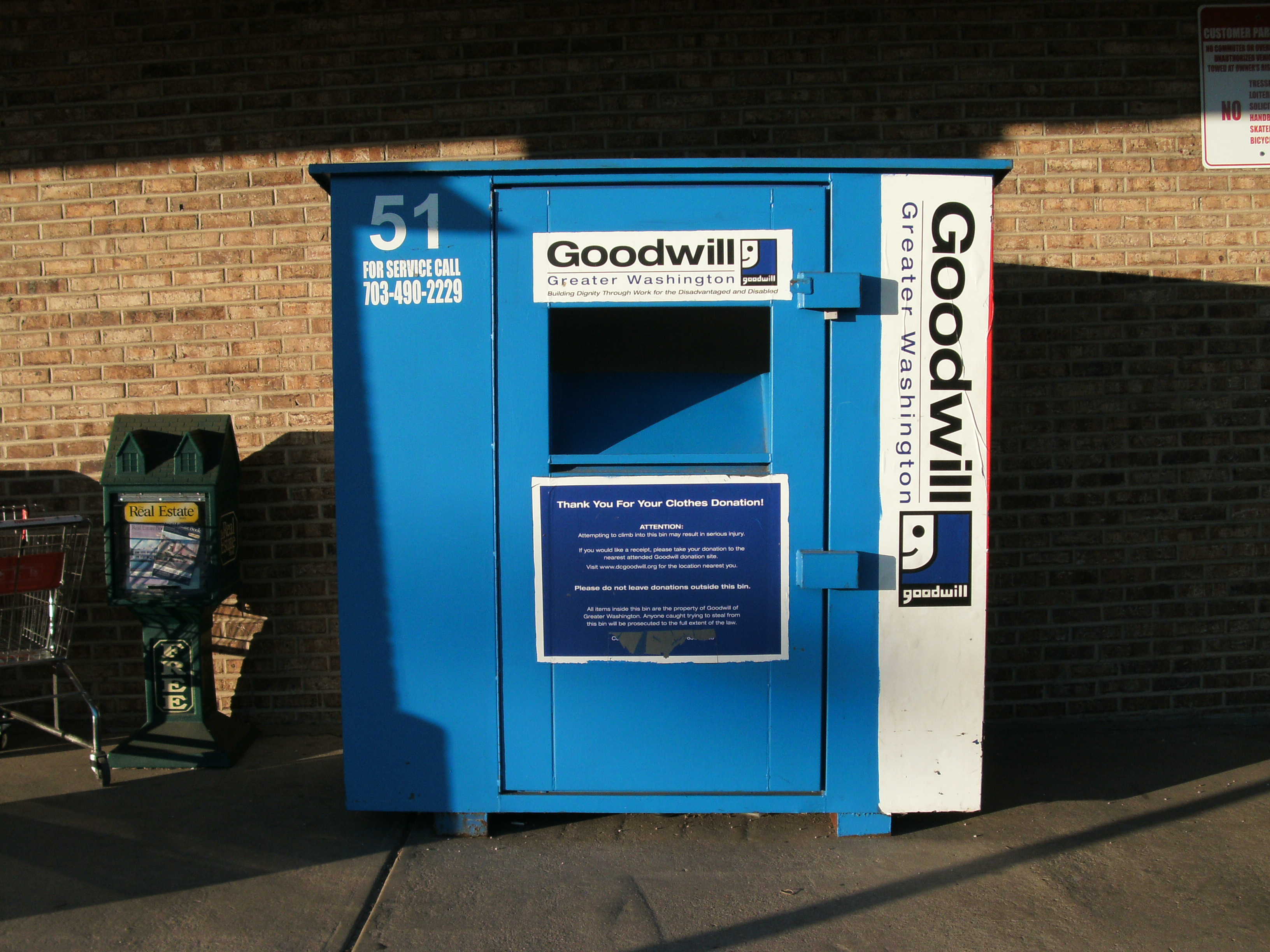 Fairfax County, VA GEDSC DIGITAL CAMERA